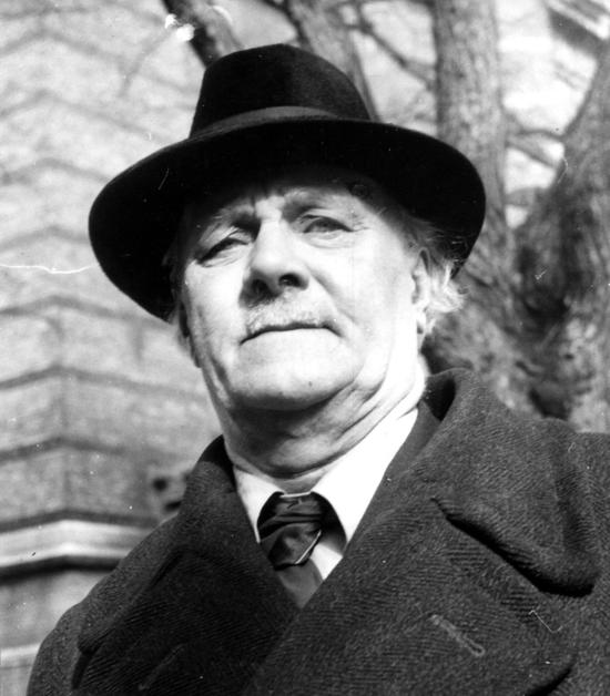 Victor Arendorff (1878-1958)